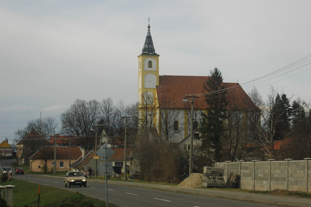 Kuchyňa, St. Michael catholic church (1701)